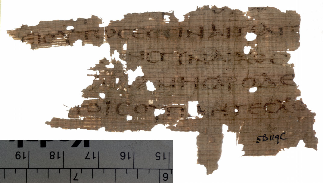 Papyrus 71, recto (Mat 19:10-11)